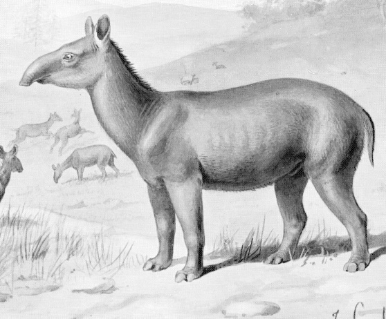 Palaeotherium by Joseph Smit (1836-1929) from Nebula to Man 1905 England